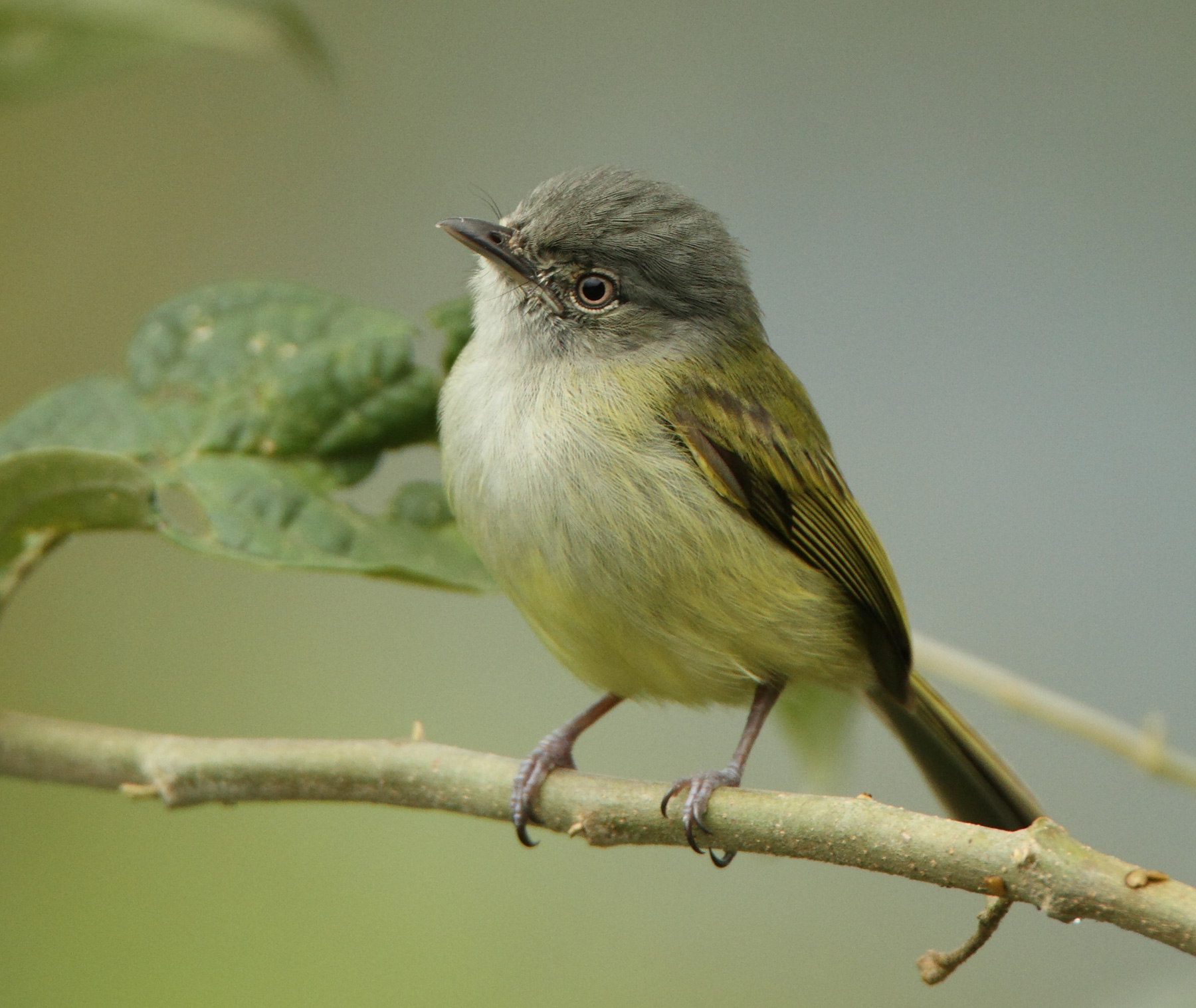 Yellow-olive-Flycatcher (Tolmomyias sulphurescens), Turrialba, Costa Rica